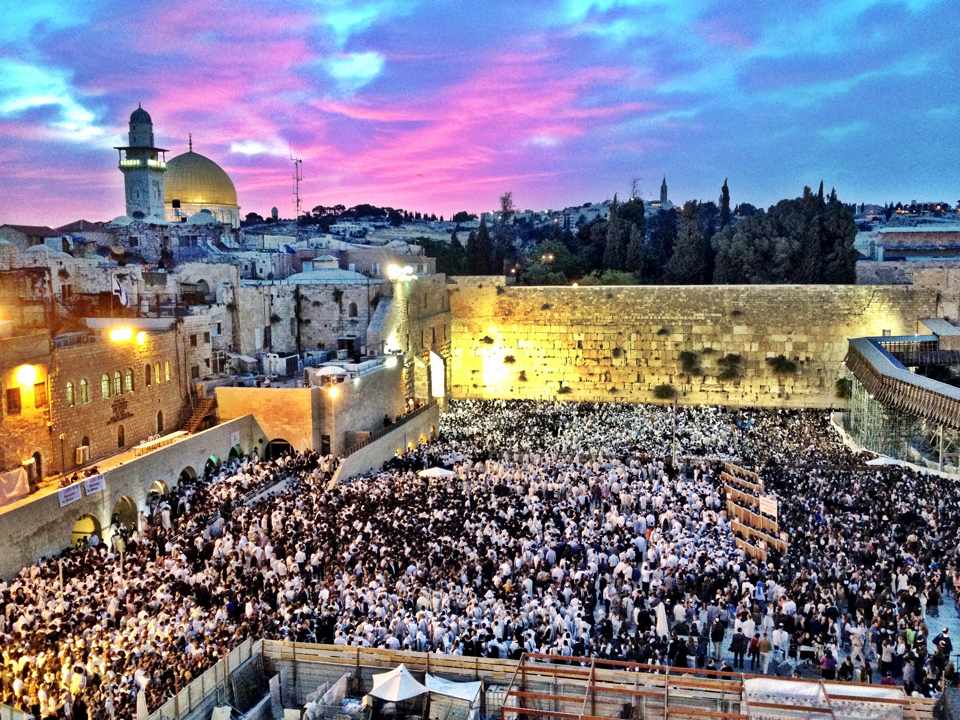 Traditionally, the holiday of Shavuot is marked by an all-night Torah study session to celebrate the fact we received it on this day. "In Jerusalem, tens of thousands of people finish off the nighttime study session by walking to the Western Wall before dawn and joining the sunrise minyan there. This practice began in 1967. One week before Shavuot of that year, the Israeli army recaptured the Old City in the Six-Day War, and on Shavuot day, the army opened the Western Wall to visitors. Over 200,000 Jews came to see and pray at the site that had been off-limits to them since 1948. The custom of walking to the Western Wall on Shavuot has continued every year since." -Wikipedia, Shavuot